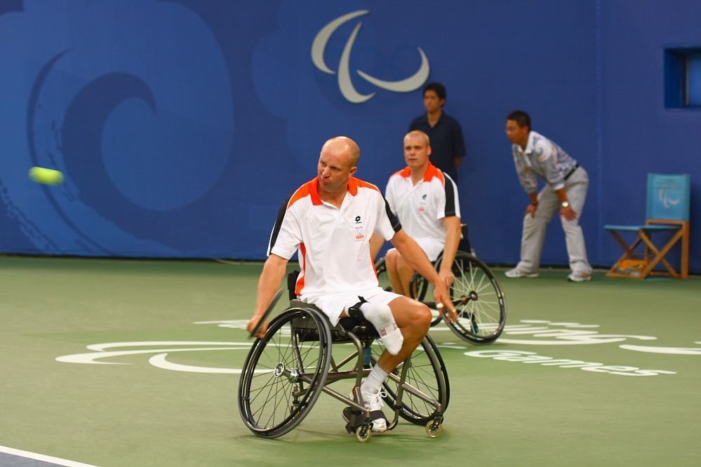 2008北京残奥会的轮椅网球赛之三--男子双打季军争夺 Maikel Scheffers (at the back) and Ronald Vink (front) of the Netherlands